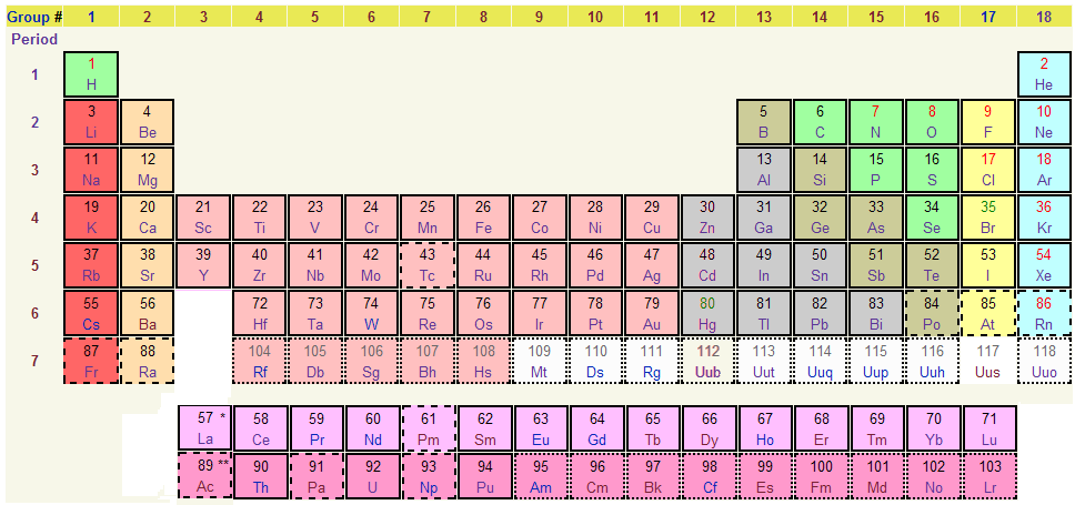 Periodic table